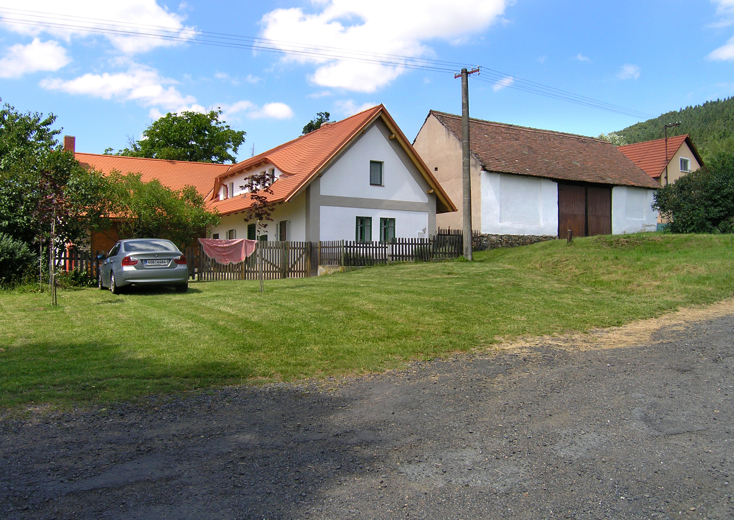 Common in Lhůty village, part of Třemošnice, Czech Republic